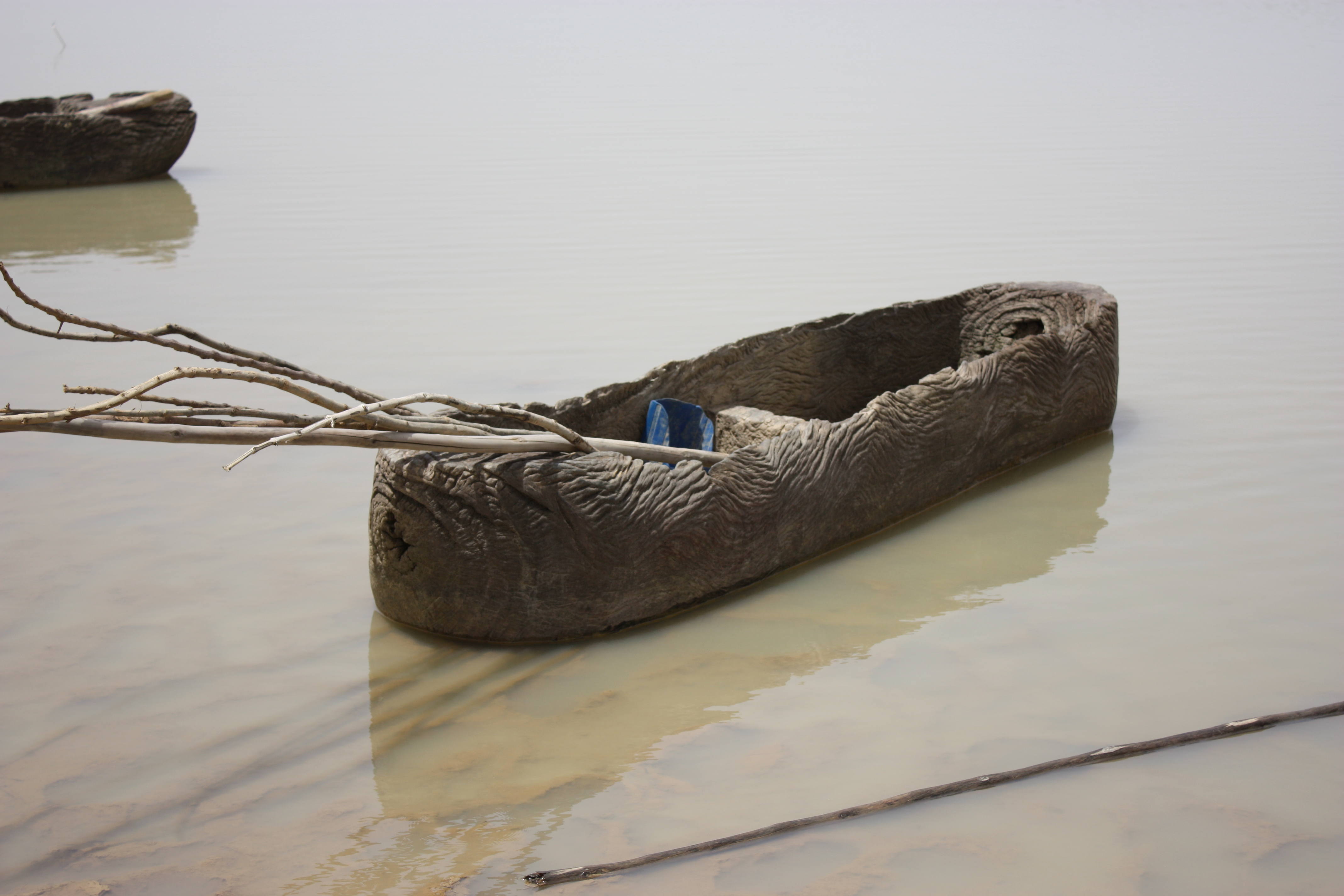 Boat on Lac de Bam, Burkina Faso